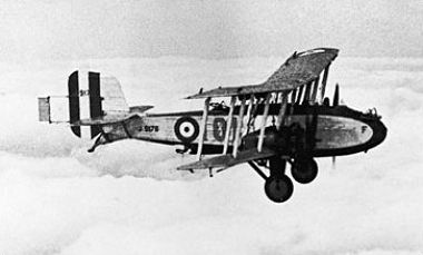 photo originally taken by a British government employee; image found on: [1]